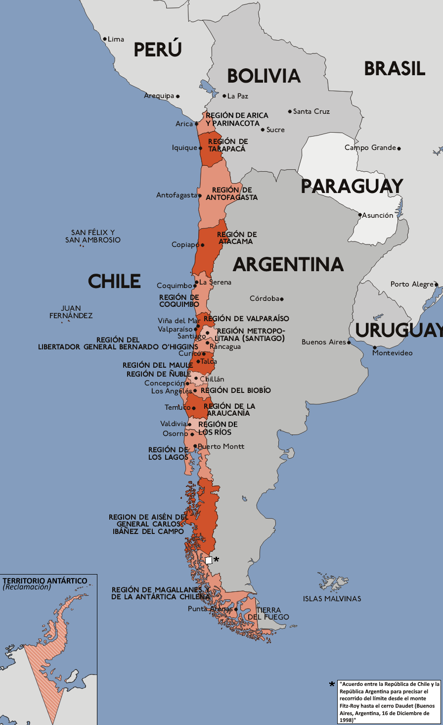 This diagram shows the administrative districts of Chile.